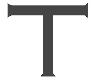 Tau cross, the emblem of the Order of Saint-Anthony